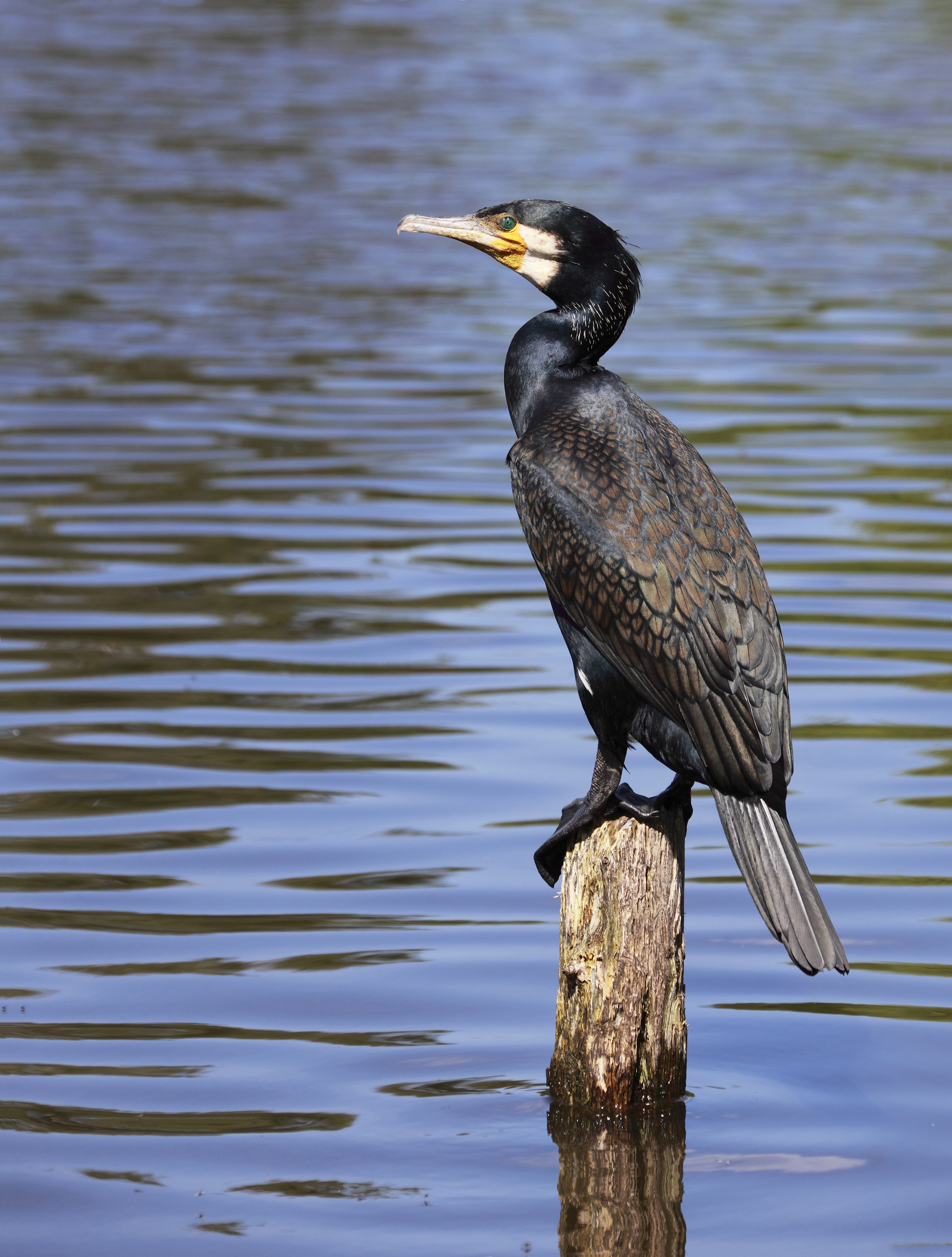 Great cormorant (Phalacrocorax carbo), Uetersen, Germany.